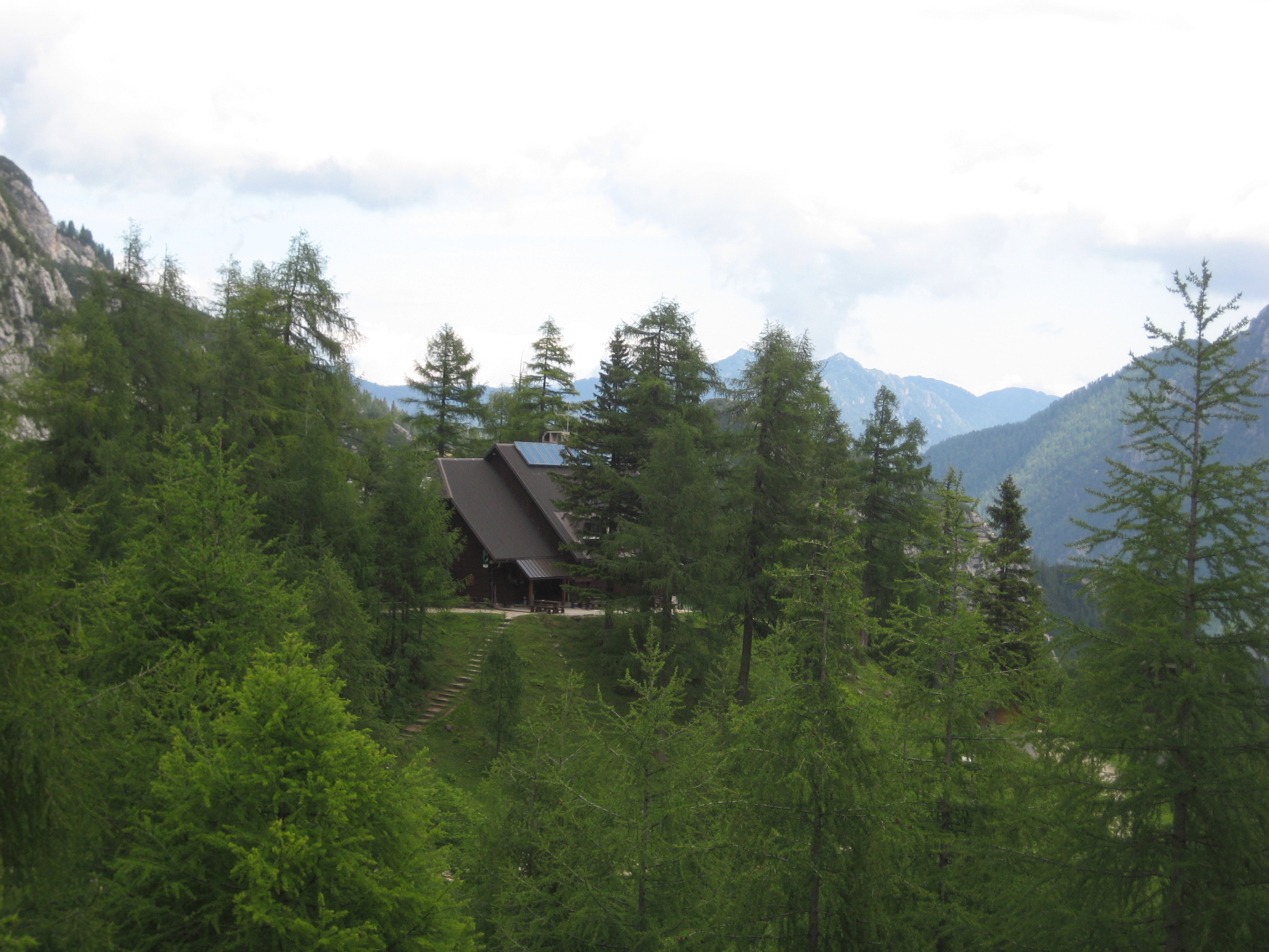 Erjavčeva koča, alpine Hut at Vršič, Slovenia